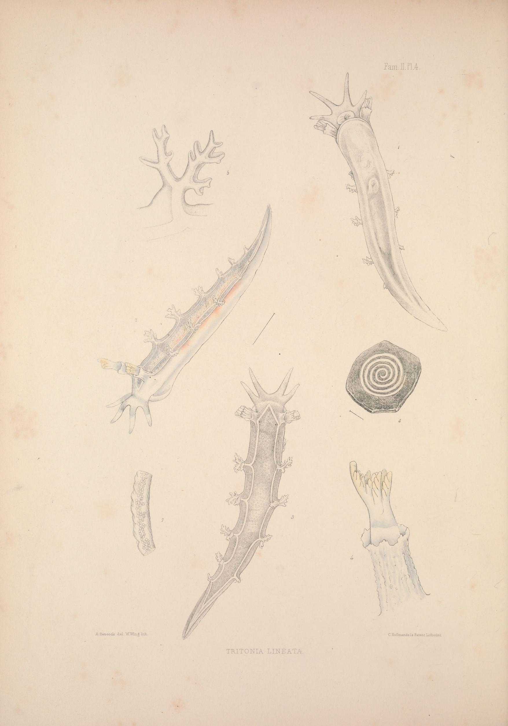 Alder J. & Hancock A. (1845-1855). A monograph of the British nudibranchiate Mollusca: with figures of all the species. The Ray Society, London. Published in 8 parts:Part 5 Fam.2 Plate 4 [1851]. Tritonia lineata Alder & Hancock, 1848